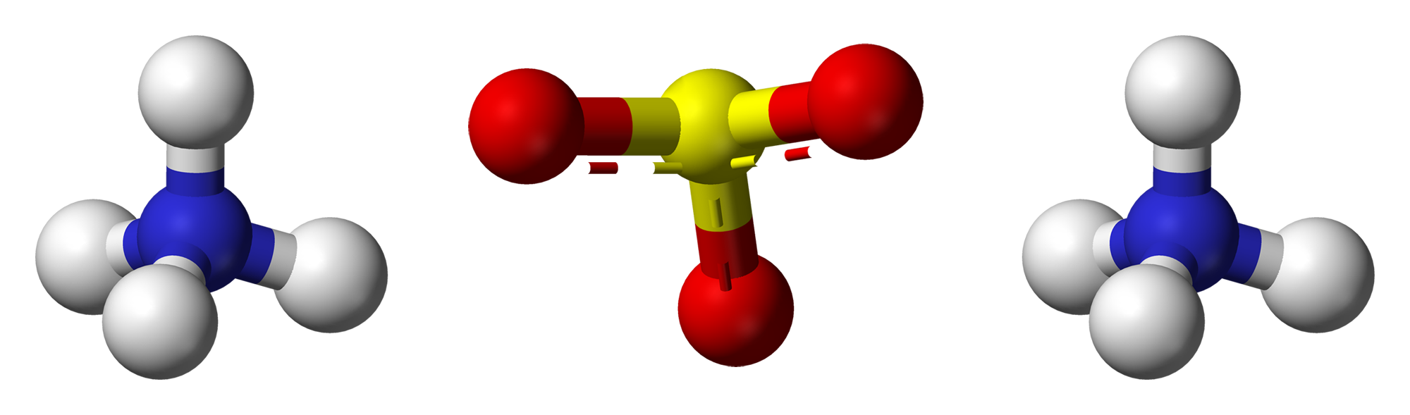 Ball-and-stick model of ammonium sulfite, showing two ammonium cations and one sulfite anion.